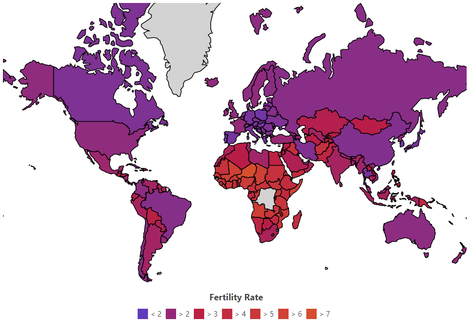 Tỷ lệ sinh trên toàn cầu năm 2020